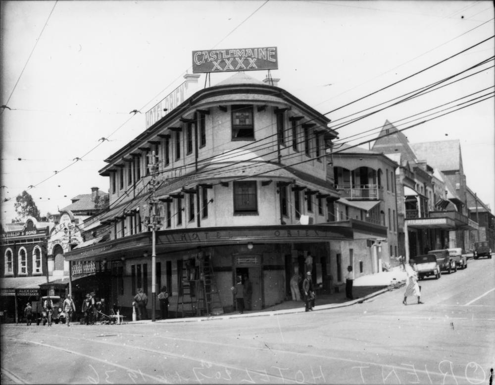 Orient Hotel on the corner of Queen and Ann Streets, Brisbane, 1936 This hotel is still operating as at 2007 and was originally built ca. 1875.